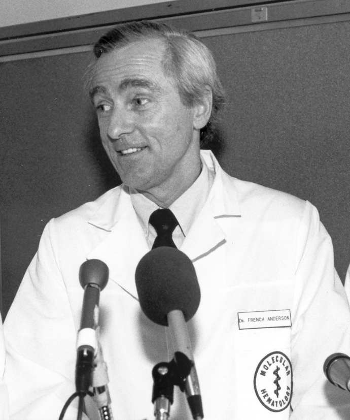 Title Gene Therapy Press Conference Description The Gene Therapy press conference held on September 13, 1990. W. French Anderson, M.D. Topics/Categories Historical -- Events National Cancer Institute -- People Treatment -- Experimental Therapy Type B&W, Photo Source National Cancer Institute